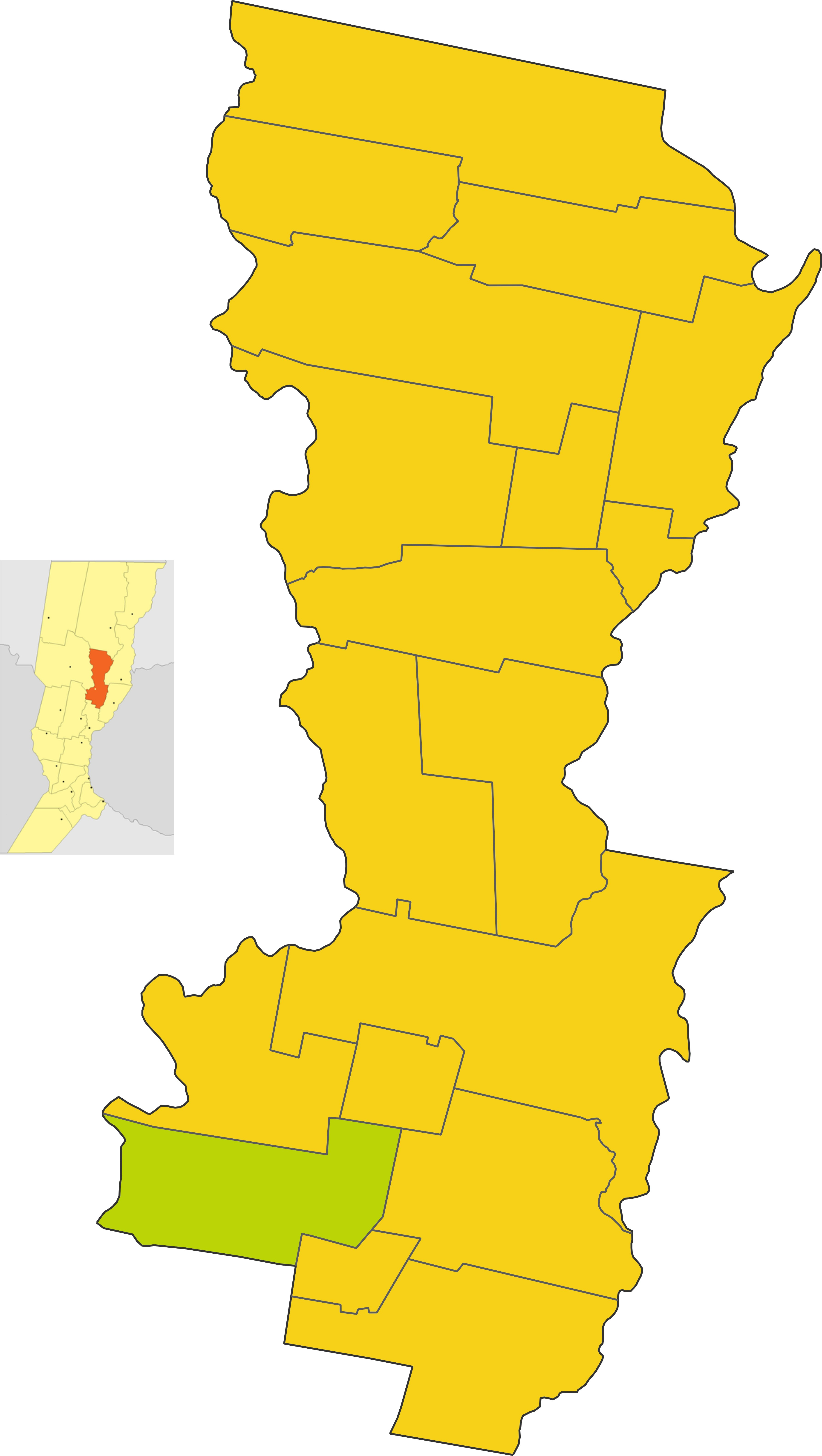 Map of the comuna de Videla in San Justo department, Santa fe province, Argentina